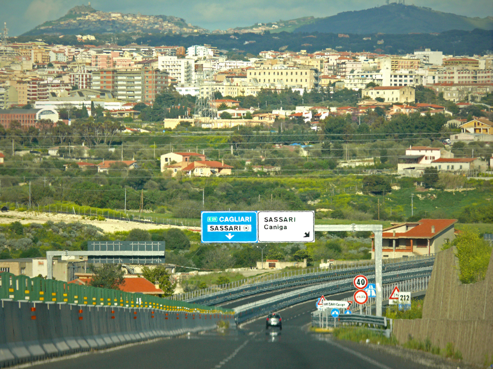 SS 131 Carlo Felice "camionale Sassari-Porto Torres" Sardinia